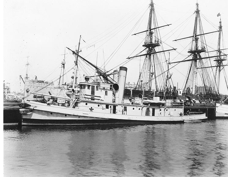 USS Mohave (AT-15) At the Boston Navy Yard, circa 1924. USS Bridgeport (AD-10) and USS Constitution are in the background.